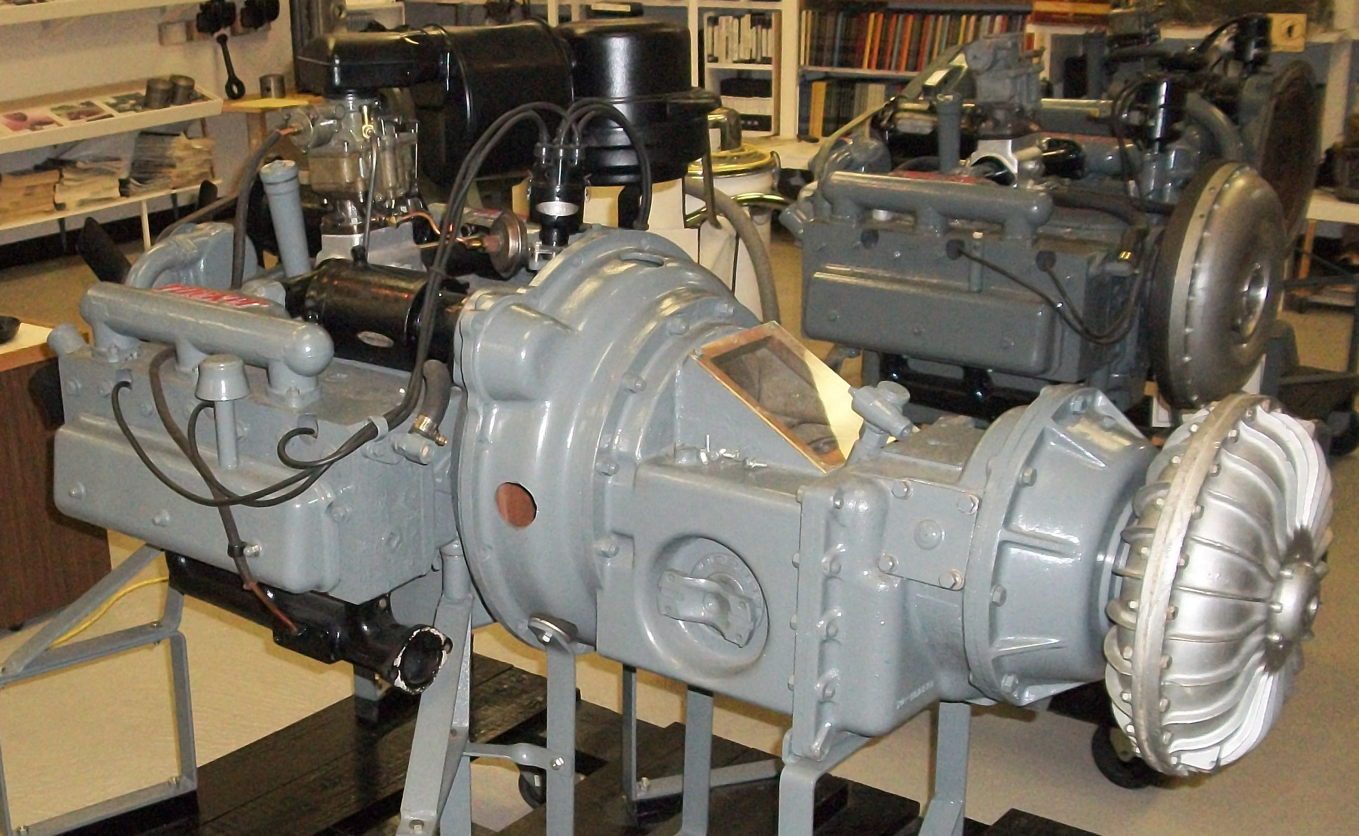 Tucker O-335 engine and Tuckermatic R-1-2 transmission (transmission recovered from car #1042). Note the second torque converter on the end, first torque converter is inside bell housing.